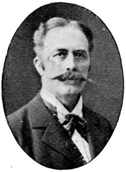 Image scanned from the book "Svenskt Porträttgalleri XX - Arkitekter, Bildhuggare, Målare m.fl. " ("Swedish Portrait Gallery XX - Architects, Sculptors, Painters, ") published 1901